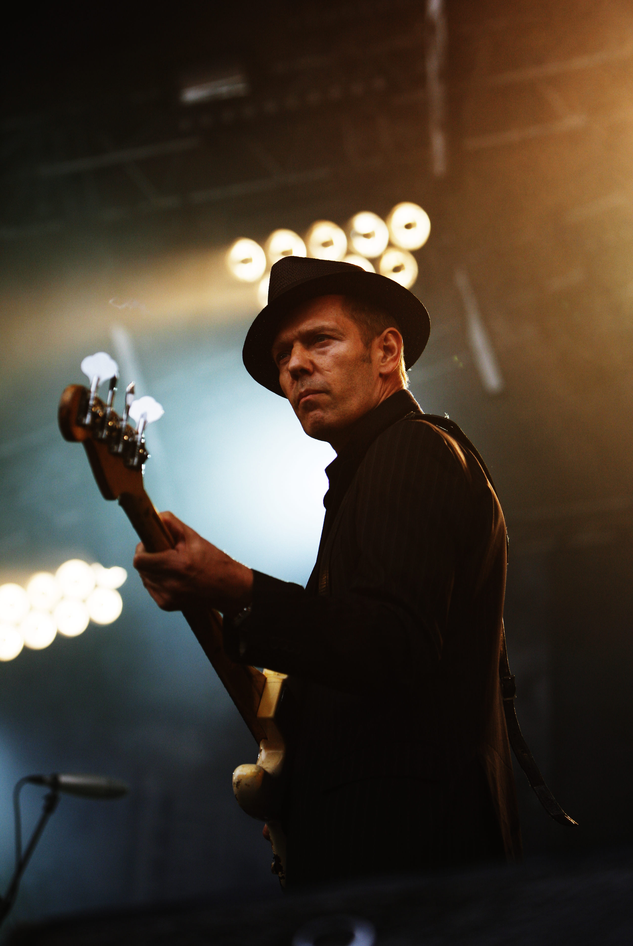 Paul Simonon at the Eurockéennes of 2007.